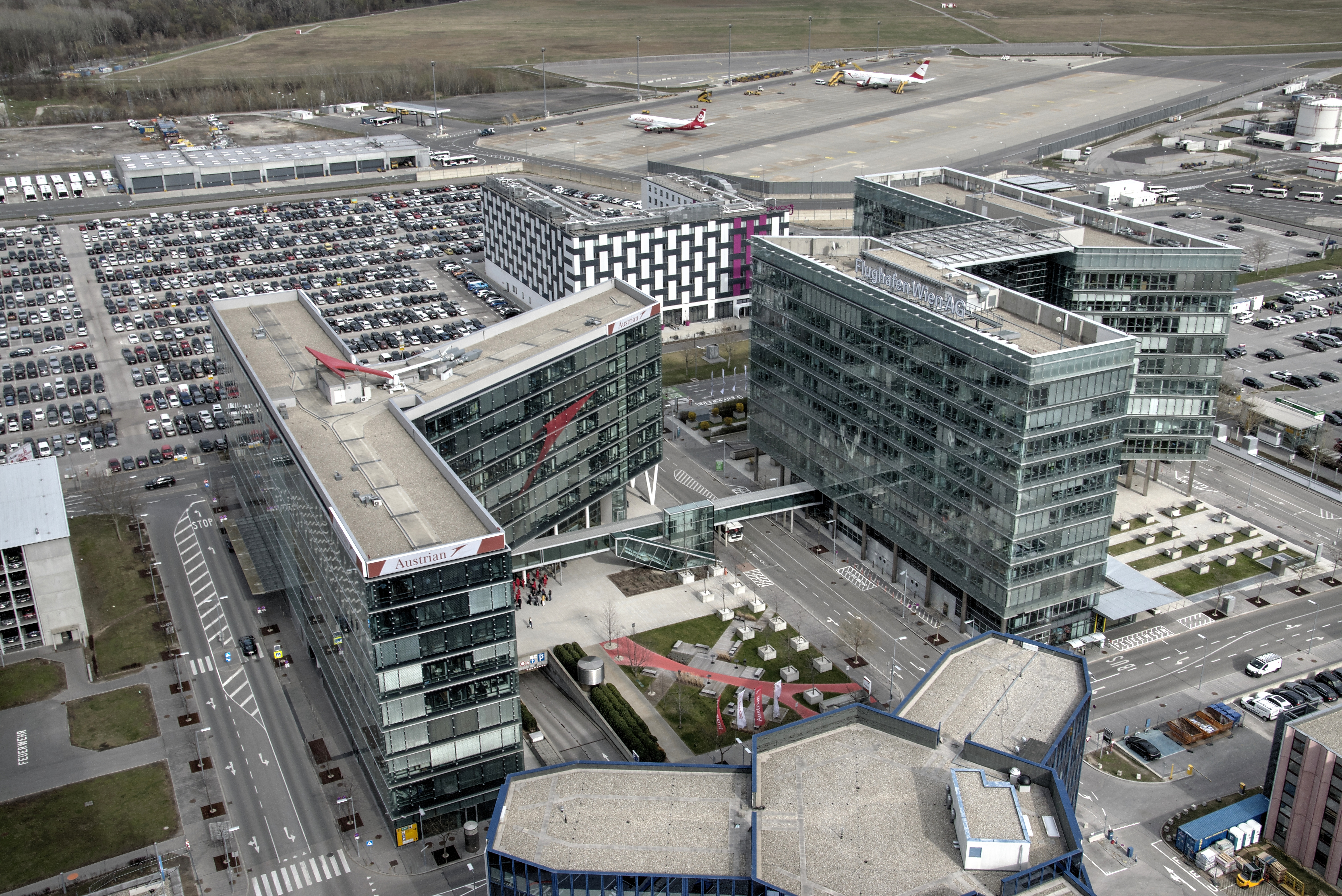 Austrian Airlines Head Office & Flughafen Wien AG